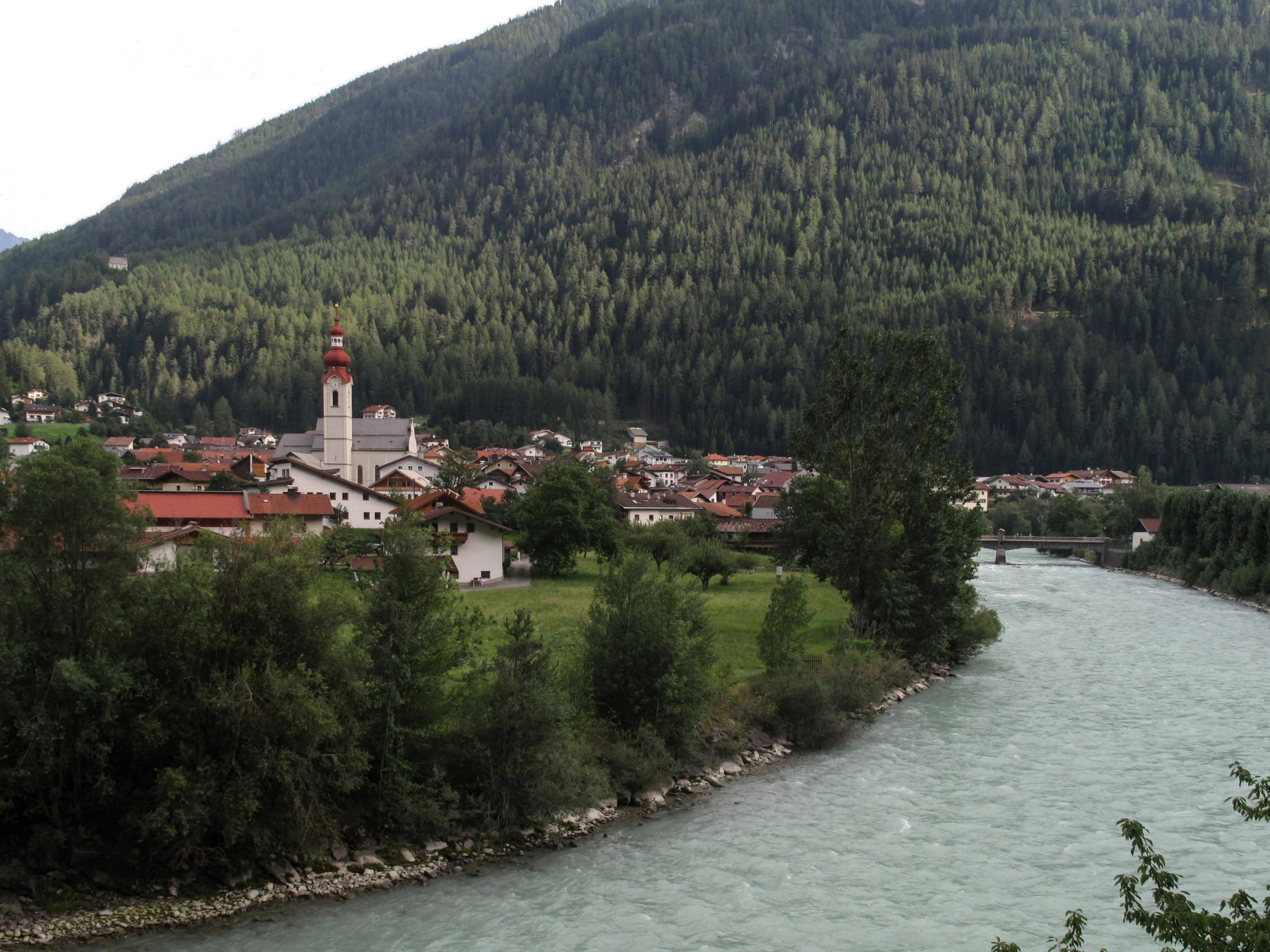 Pfunds, view to the village